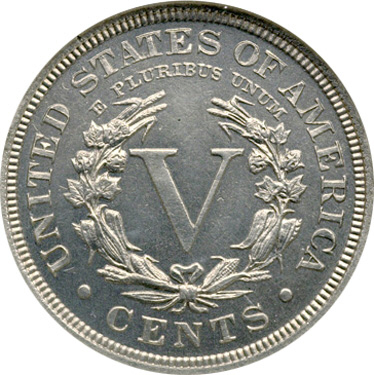 1913 Five Cents, Liberty Head, Reverse